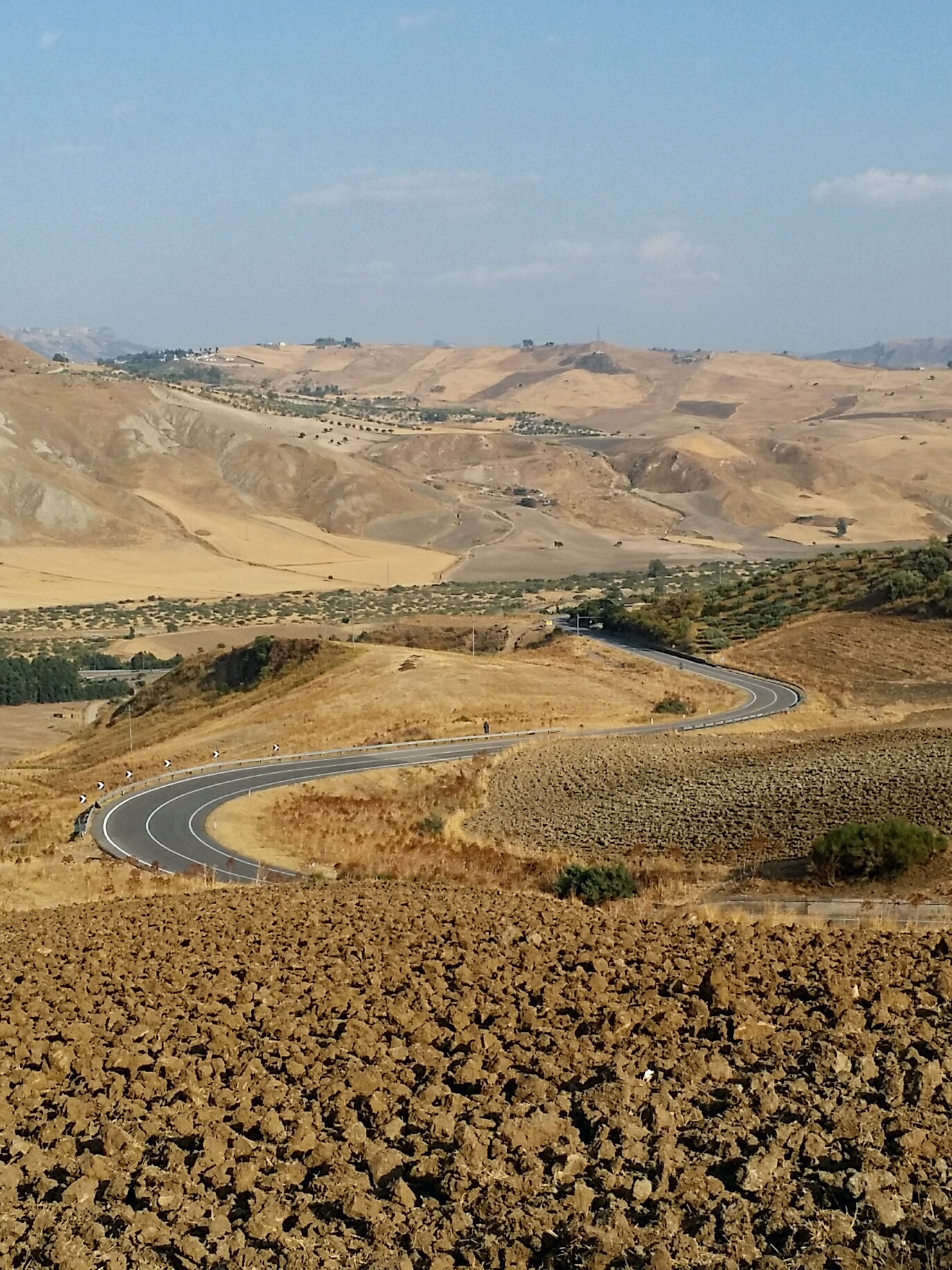 Italian national road "S.S. 121 Catanese" between Cinque Archi bridge and Santa Caterina Villarmosa (province of Caltanissetta, Sicily)